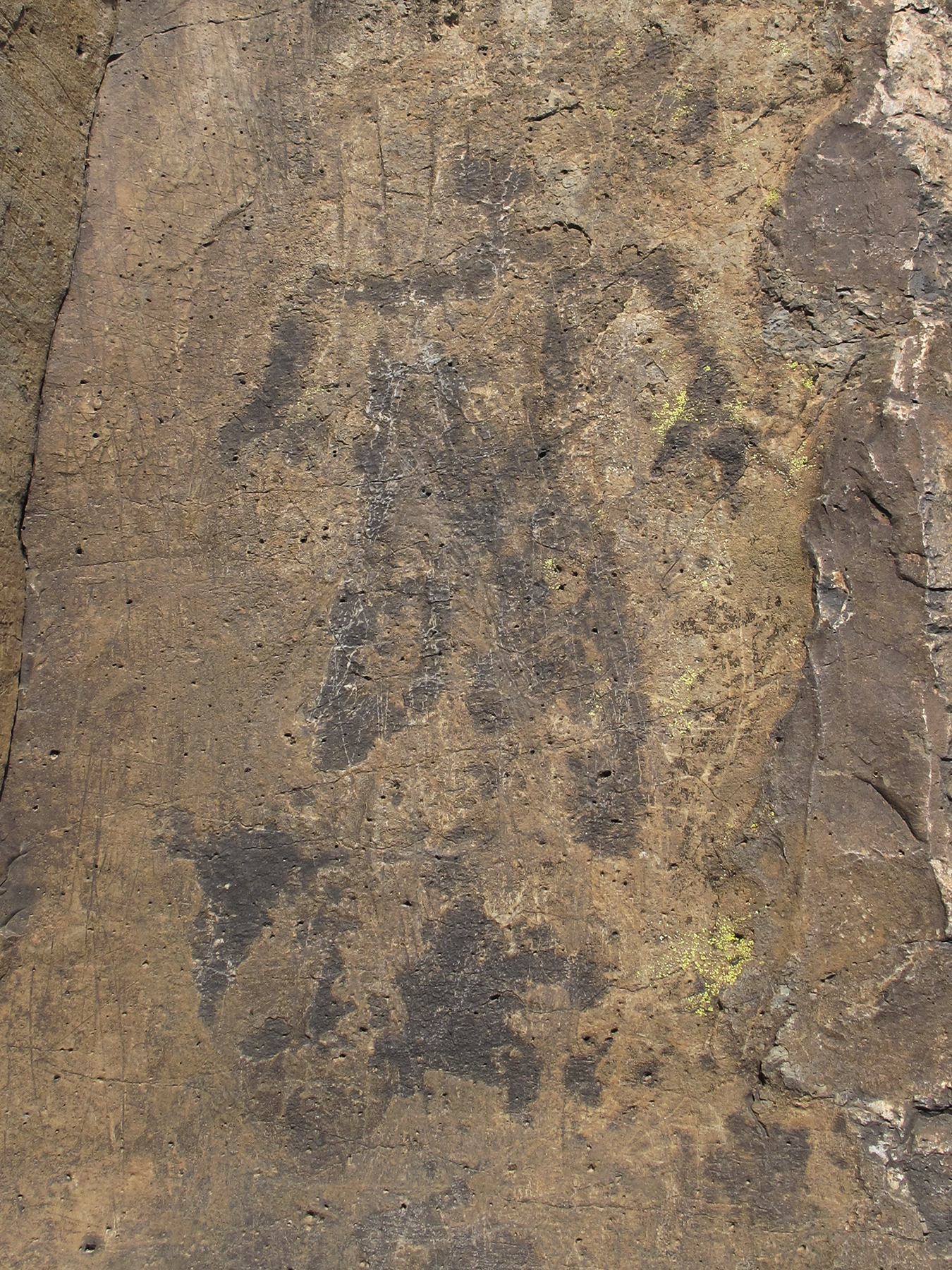 Petroglyph called "Guayadeque's Man" at Morro del Cuervo, located on top of Agüimes Hill, Gran Canaria, Spain